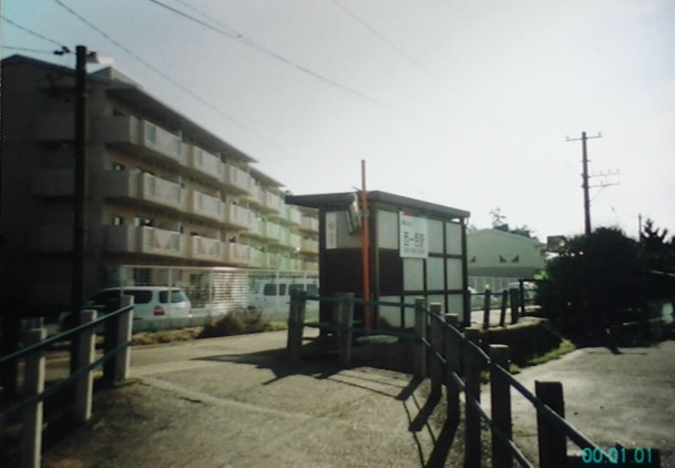 Meitetsu Nishi Ishiki Station entrance 2004 March